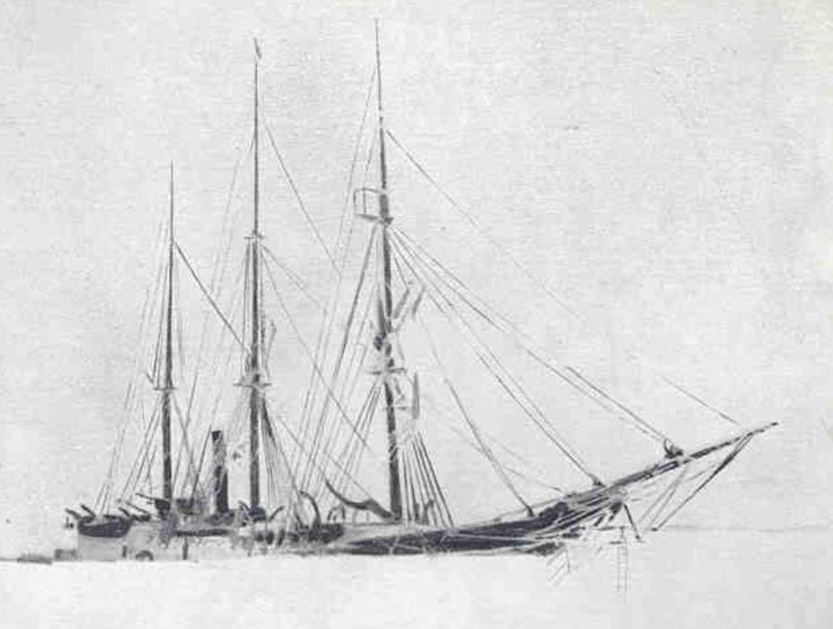 Steam whaler Belvedere in the ice, Point Franklin, Alaska March 1898. This file was downloaded from (University of Washington) which has a better digitization than other online sources; they credit the listed source.